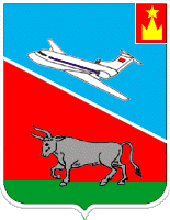 Coat of arms of Bykovo, Moscow Oblast. Officially founded on August 24, 1989 by the XIV Session of the XX Calling of the local Soviet of People's Deputats.Blazon divided in two parts by a downfalling (from left to right) line. Upper blue field contains a Yakovlev Yak-40 ascending aircraft, while the bottom part contains a grey bull (Byk in Russian) on a red field. The bull is standing on a green grass field. The upper right corner contains a tower of a Moscow Kremlin